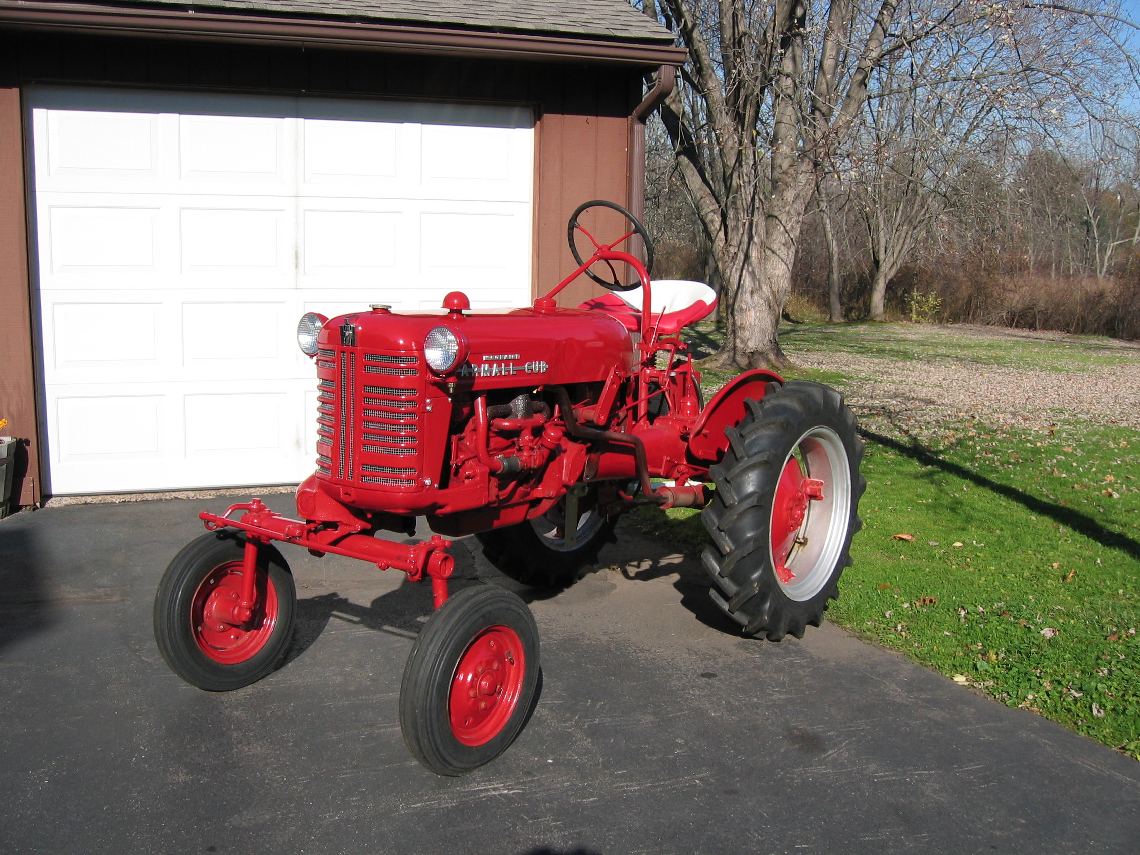 1955 Farmall Cub, Rocky Hill, CT, USA